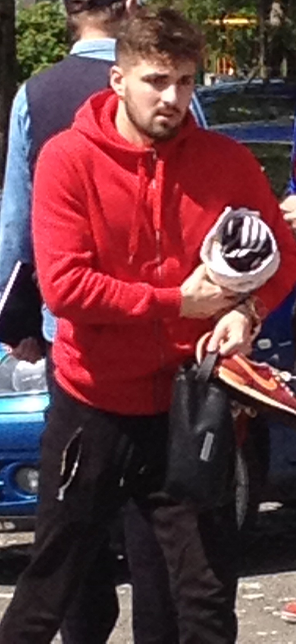 This is an image of Mark Francis (footballer) taken in May 2014